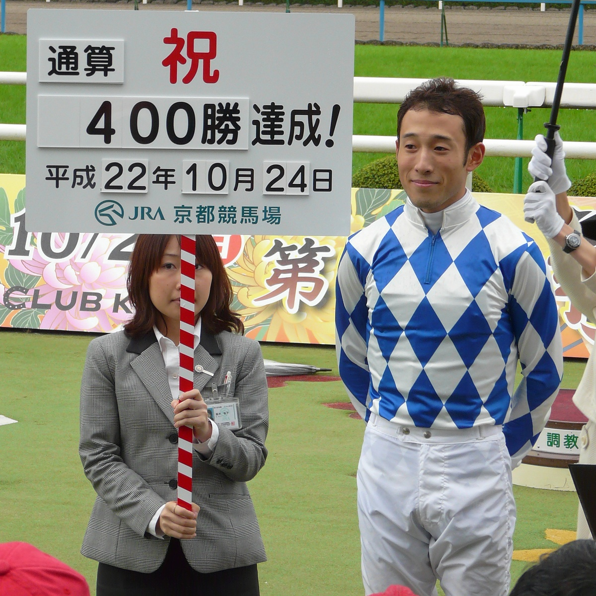 Yusuke-Fujioka20101024